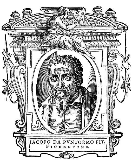 Illustratio from "Le Vite" by Giorgio Vasari, edition of 1568. For the artist portrayed see filename